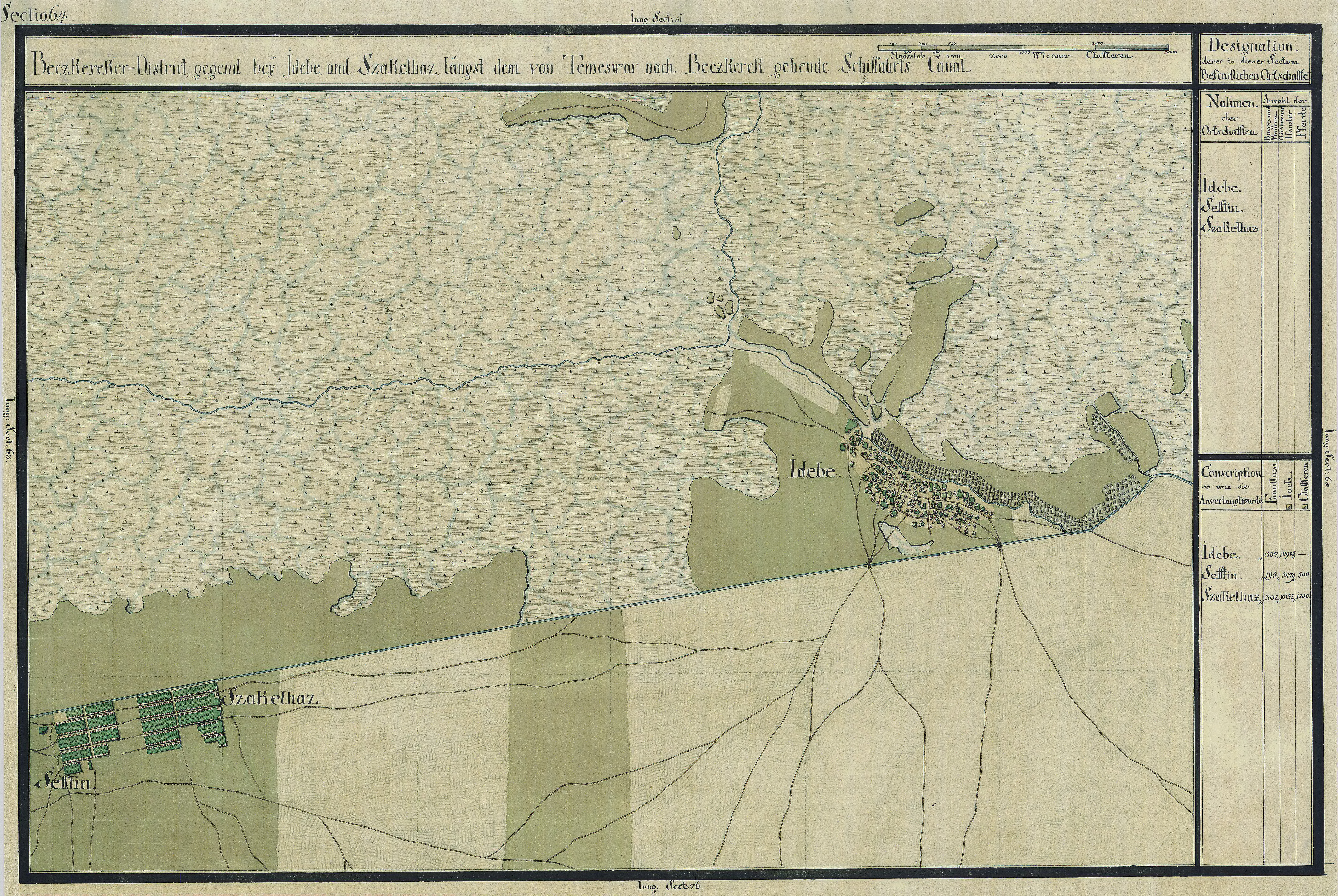 The Banat region in the cadastral maps: Josephinische Landesaufnahme, 1769-72. Josephinische Landaufnahme pg064